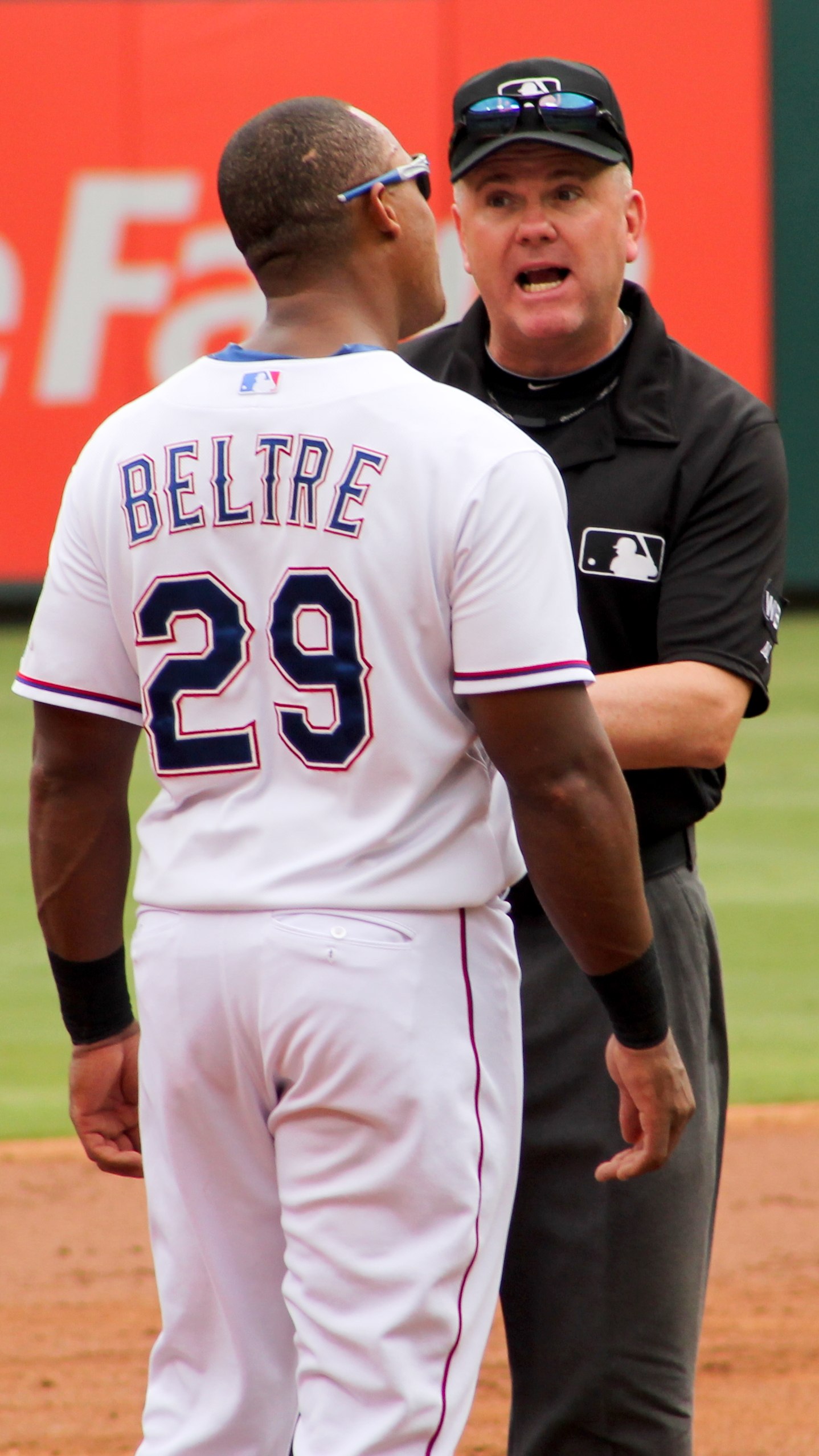 Umpire Mike Everitt and Adrián Beltré argue playfully in between innings of a September 2014 game in Texas.